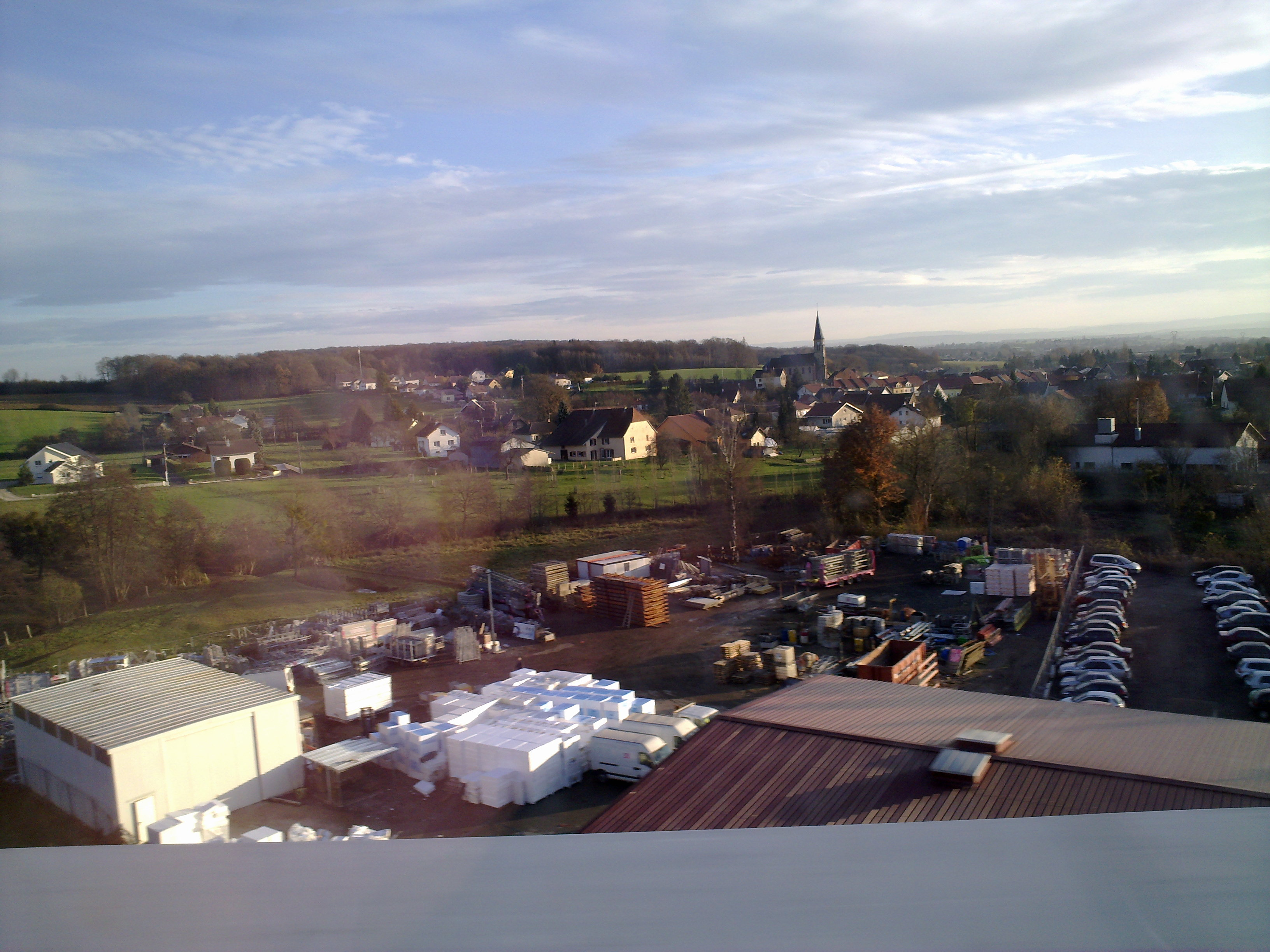 View toward Trévenans from the TGV Euroduplex (2N2) number 4703 train running on the "viaduc de la Savoureuse" bridge, between Belfort - Montbéliard TGV and Besançon Franche-Comté TGV railway stations on the day of these two stations' inaugural.